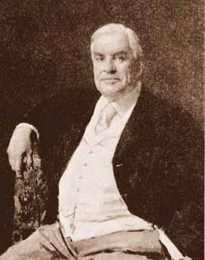 Portrait of russian opera singer Ivan Melnikov (1831-1906)